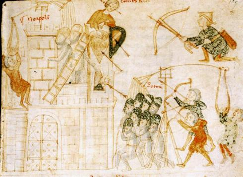 Liber ad honorem Augusti Emperor Henry VI. besieging Naples (1191) Folio ?